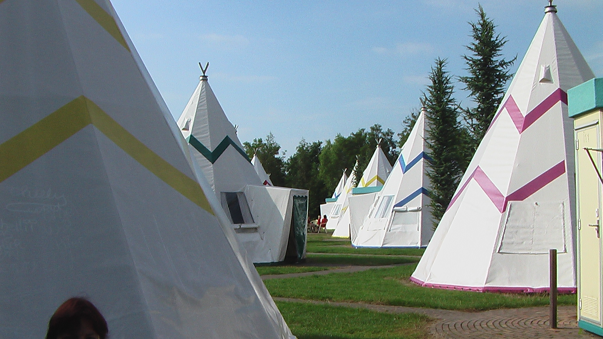 Self made picture Wigwamwereld Slagharen